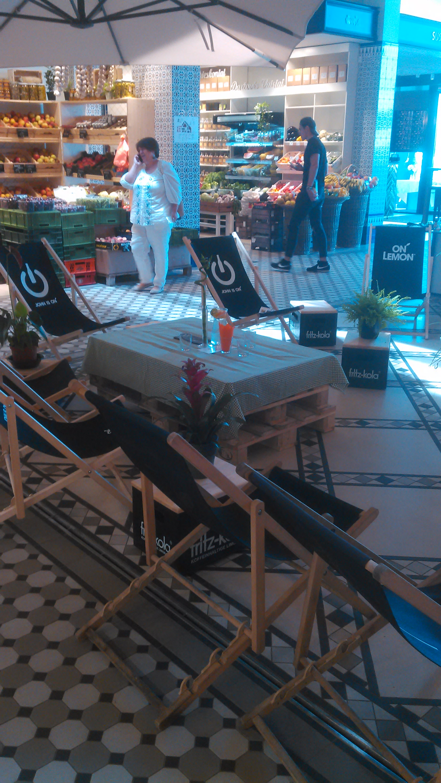 In the Benediktas food market, 2018 June.